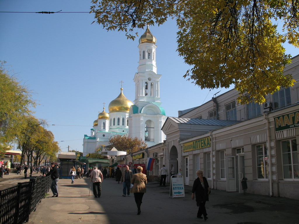 Вход в Центральный рынок Ростова